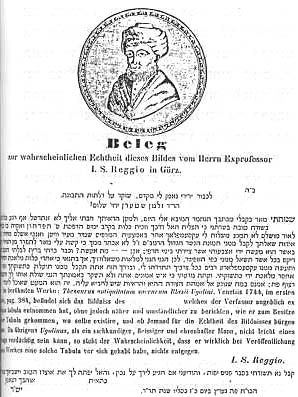 Portrait of maimonides, copied by I.S. Reggio from Ugolini's thesaurus, Venice, 1744